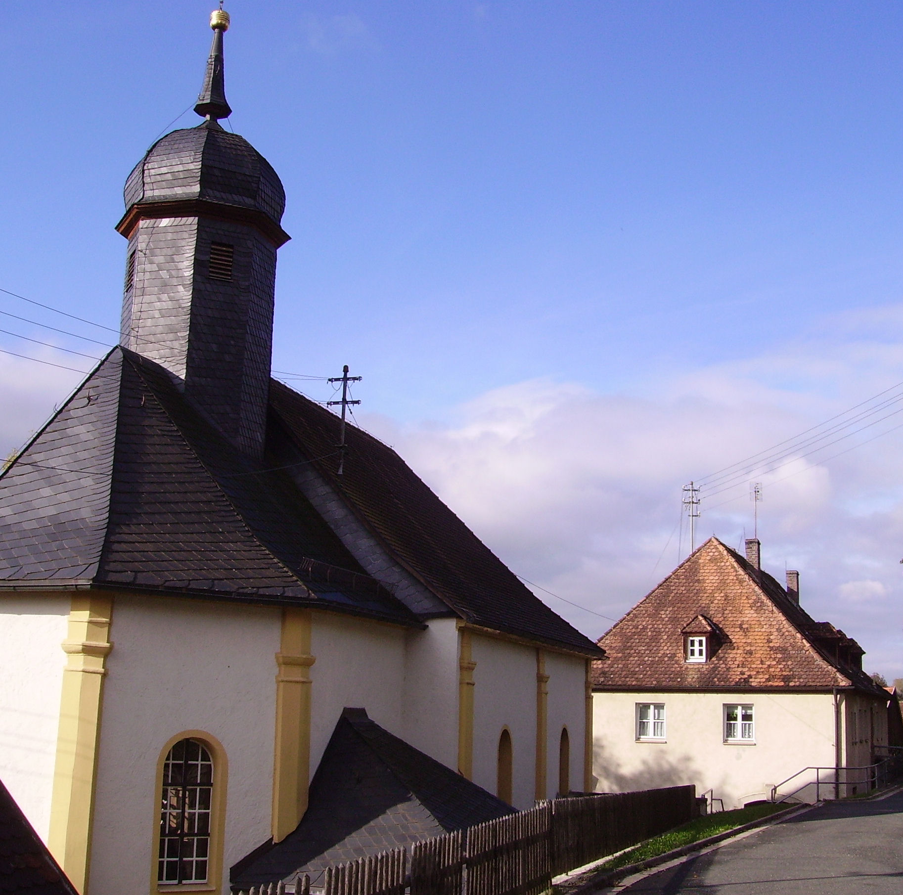 Drosendorf an der Aufseß, part of Hollfeld, Germany